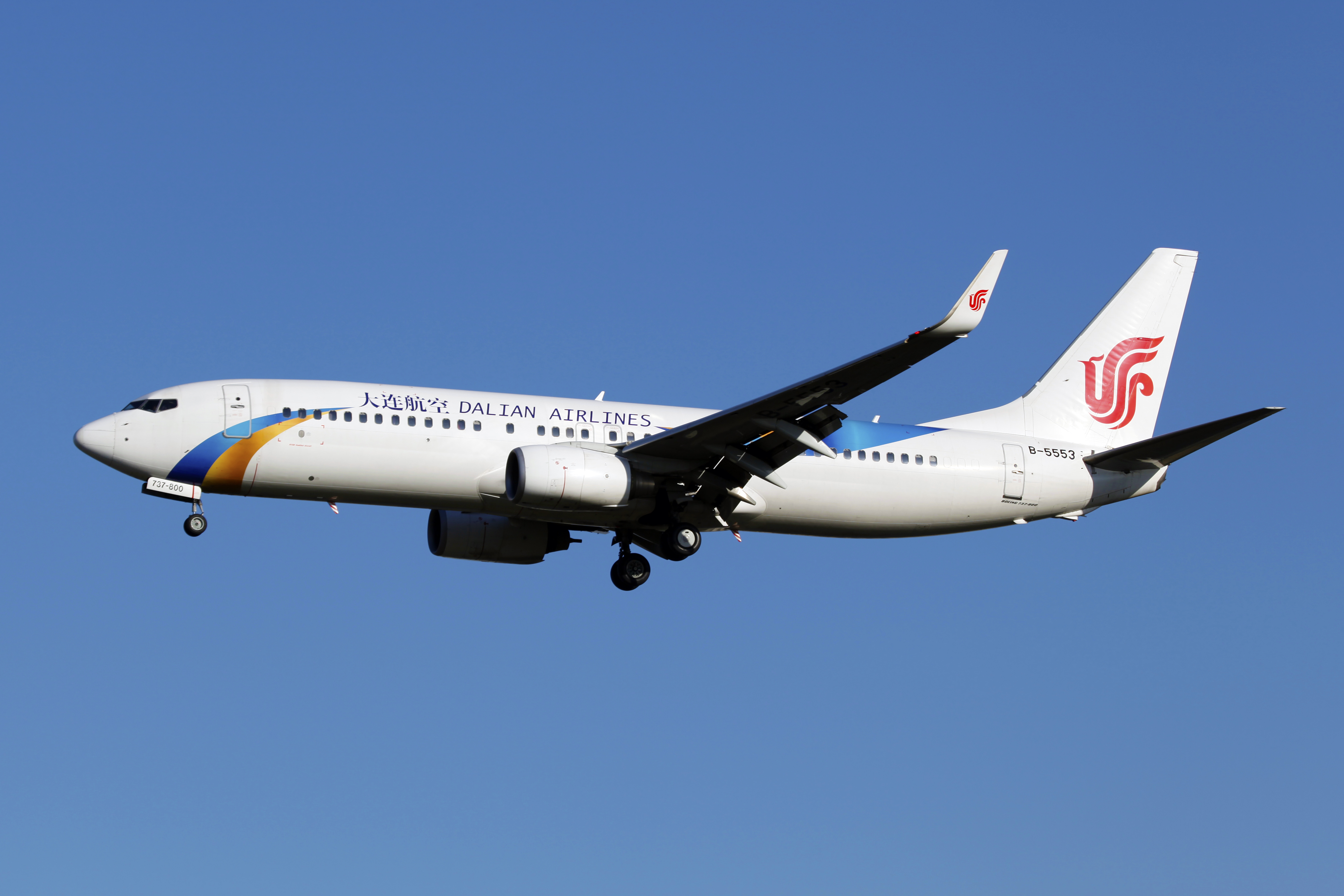 B-5553 | Dalian Airlines | Boeing 737-89L(WL) | Beijing Capital International Airport [PEK]